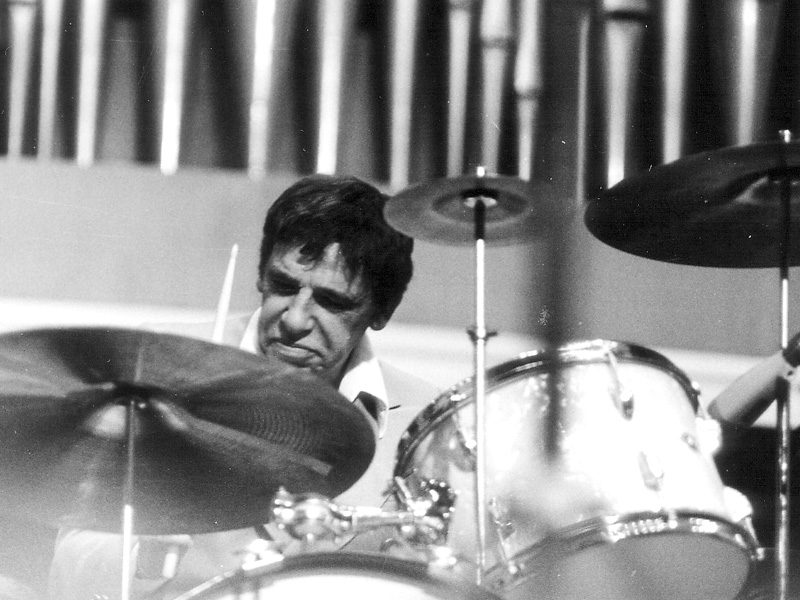 Buddy Rich during a concert in Cologne (Germany) on March 3rd 1977